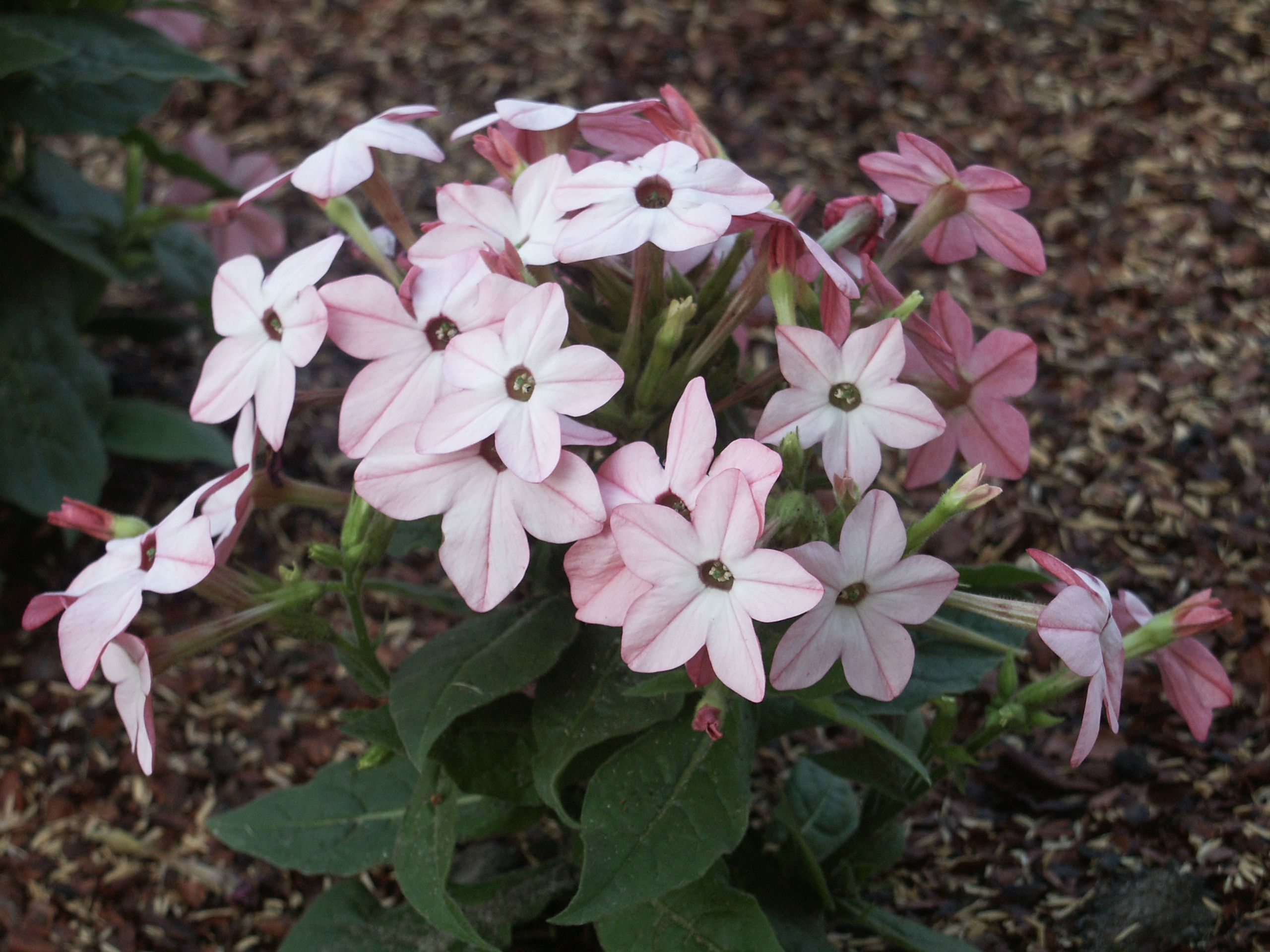 Image title: Cute flowers Image from Public domain images website